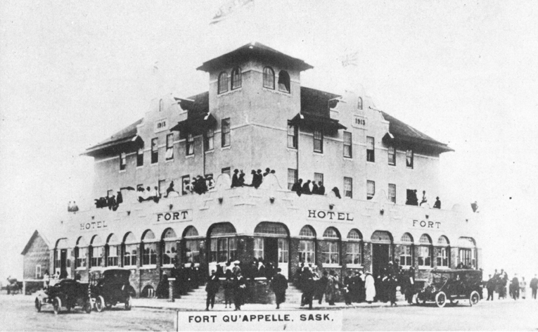 The Fort Hotel, Fort Qu'Appelle, Canada